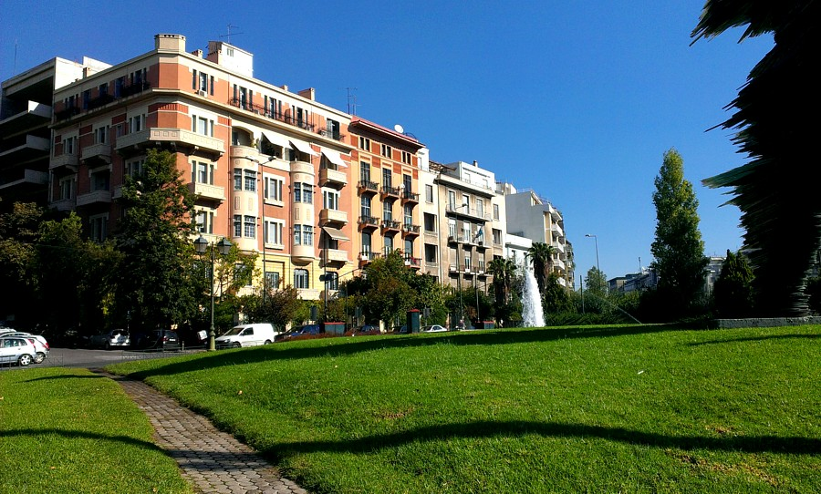 ktiria